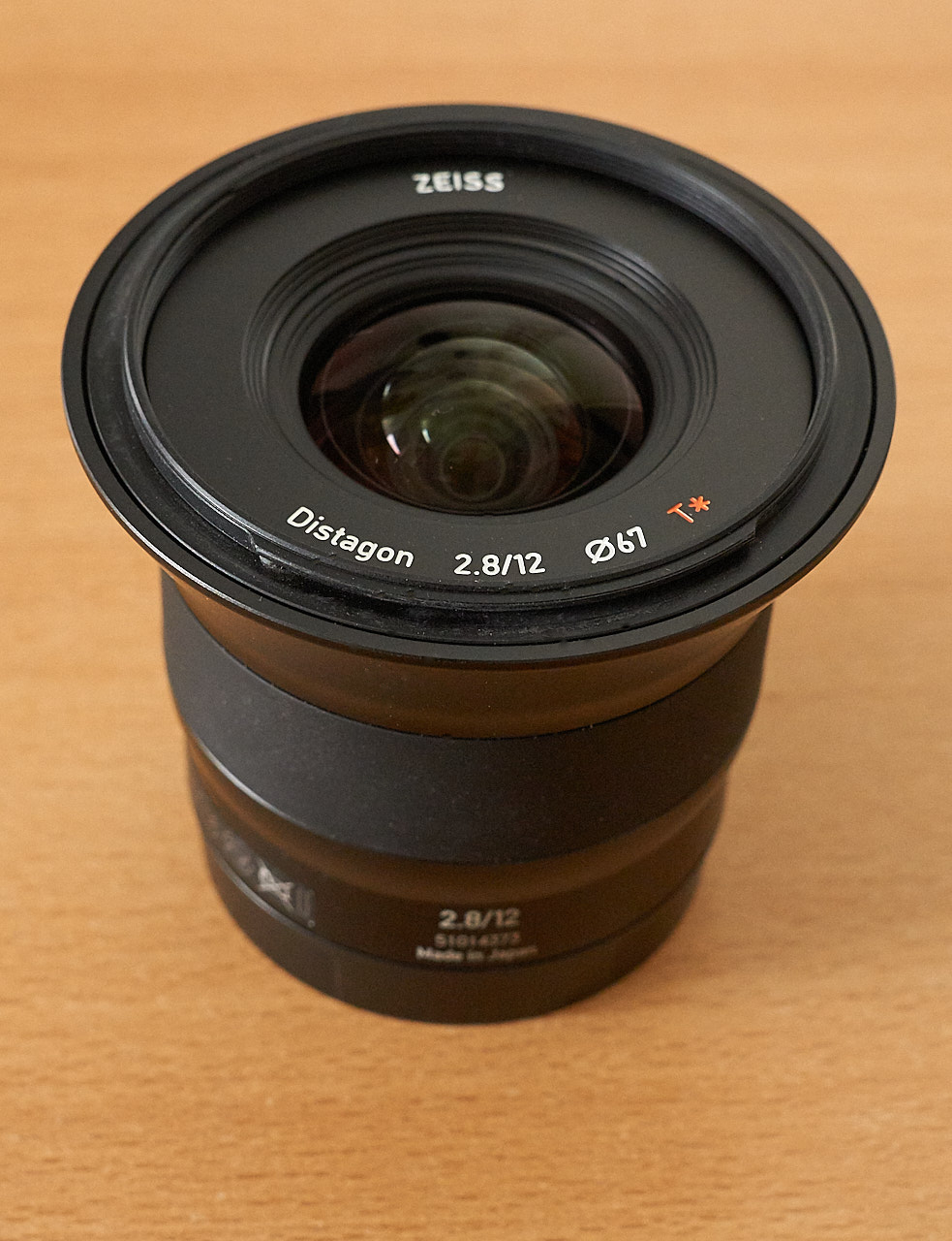 Lens by Zeiss, Touit, Distagon design, focal length 12mm, for Sony E-Mount